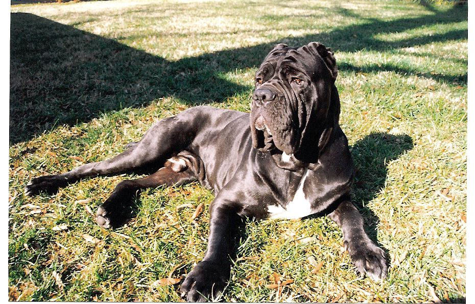 Photo taken by Lisa M. Herndon